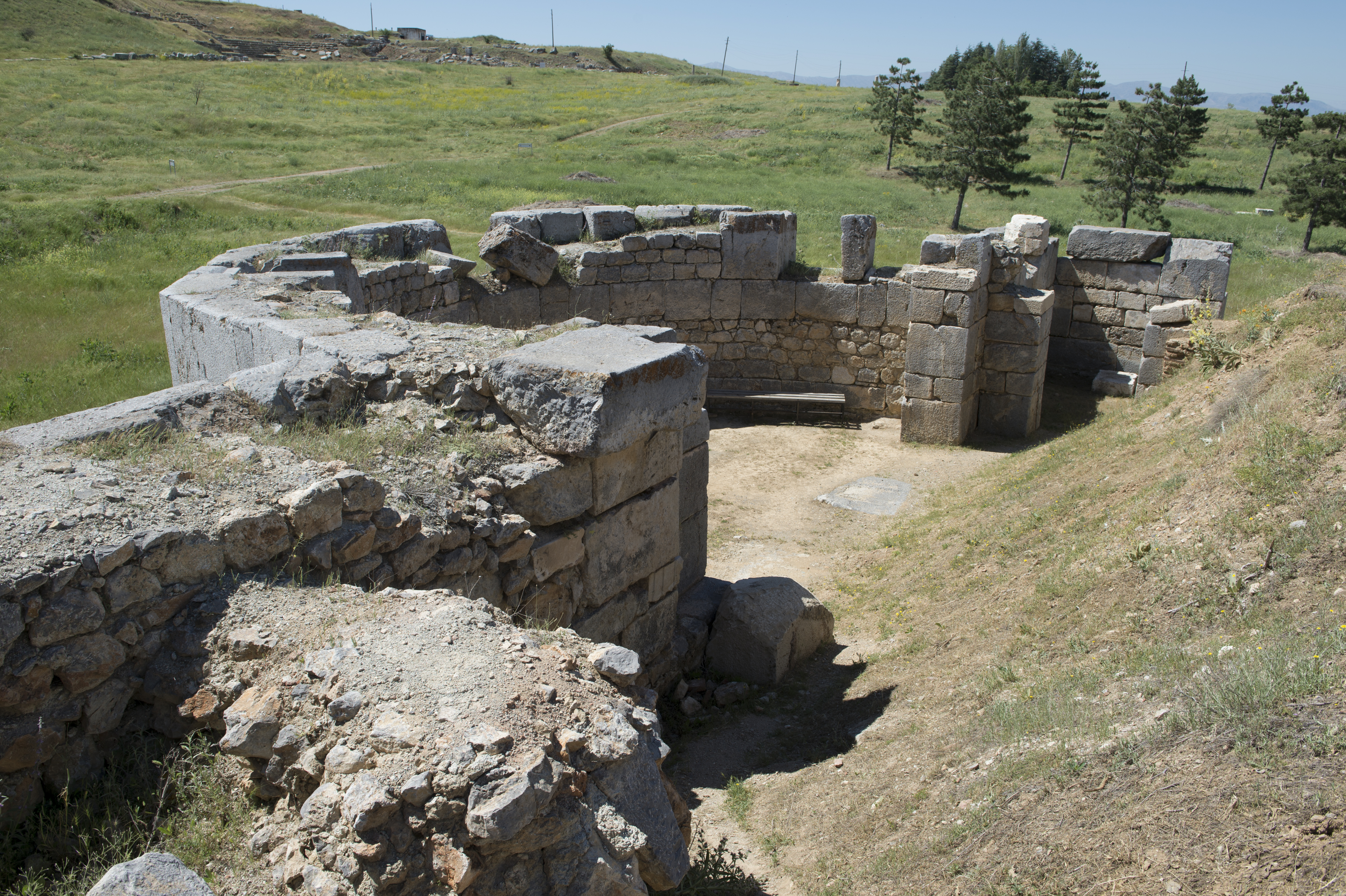 St. Paul’s Church (Great Basilica). The building reflects all the elements of basilical plan and consists of three naves and a semicircular apse. The exterior surface of the apse is encircled with a hexagonal wall. The apse has a diameter of 10,8 m and a depth of 9,2 m. The central nave is separated from the narrow naves on the sides by two rows of columns each having 13 columns and these columns test on hexagonal bases. The 27 x 13 m narthex (entrance) on the west of the building, which measures 70 x 27 m, lies in the east west direction and leans on the city walls. The ground of the central nave is composed of red, yellow, white and black tesserae and is covered with a mosaic decorated with geometric and floral motifs. The name of Archbishop Optimus, represented Antiocheia in the Council of Constantinople in 381 AD and one of the founders of Orthodoxy takes place in an inscription on the mosaic in front of the apse. This name forms a basis for dating the building construction to the late 4th century AD. This date is the beginning date for the monumental churches in Anatolia. The Great Basilica of Antiocheia is one of the two earliest example of Early Christian churches. The church visible today is the 5th – 6th century AD church, which was a restored version from the late 4th century AD and placed on the 1st floor of the church of Optimus. St. Paul, regarded as the most famous and efficient missionary of Early Christianity together with St. Pierre, had three visits to Antiocheai between the years 46-62 AD and preached in the synagogue under the foundations of the current church. He announced Christianity to the world from here. In his preaching in the synagogue on the Sabbath he read texts from Holy Law and writings of the prophet. This is considered as St. Paul’s first preaching as a missionary. On the picture: The semicircular apse of the basilica, situated at its east side. It is encircled by an exterior hexagonal wall.